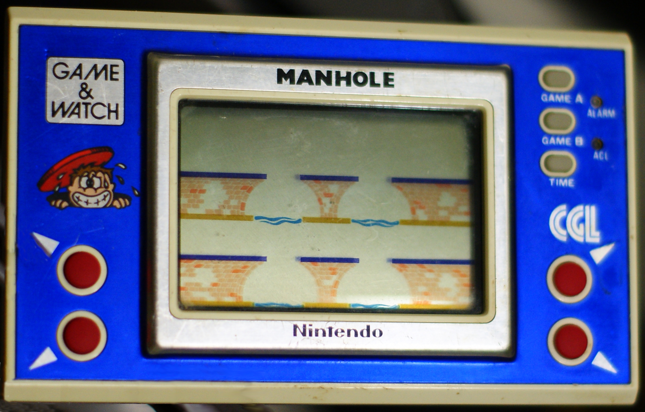 New Wide Screen series edition of the Manhole Game & Watch